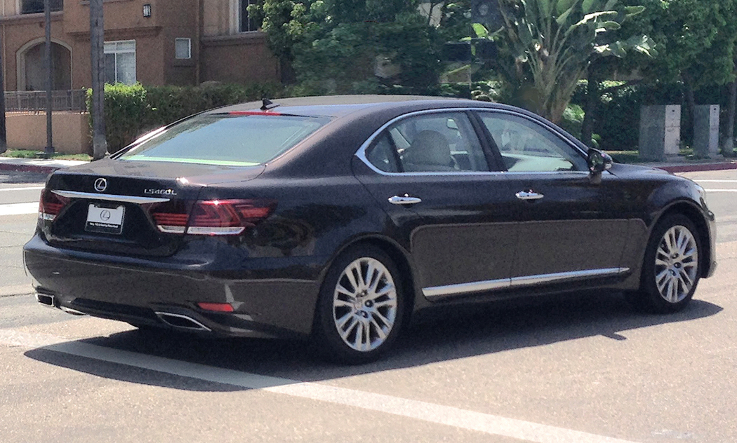 LS 460 L